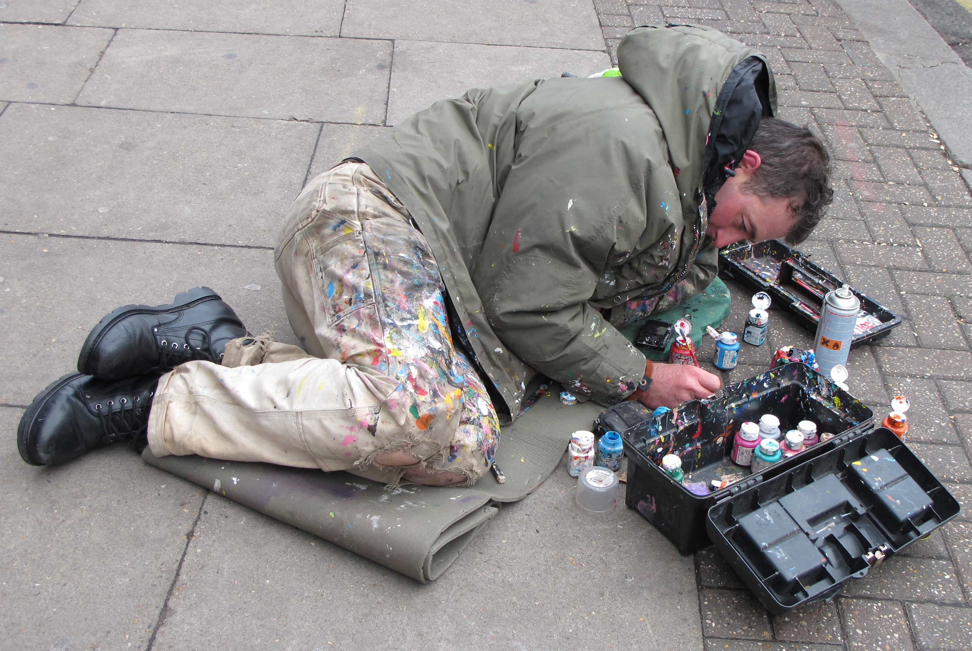 Ben Wilson, the chewing gum artist, at work in Muswell Hill Broadway, London N10